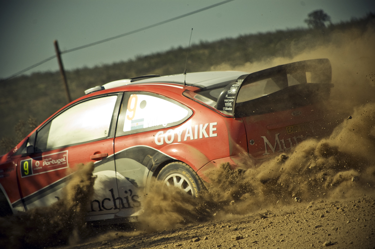 Federico Villagra driving his Ford Focus RS WRC 08 at the 2009 Rally Portugal.